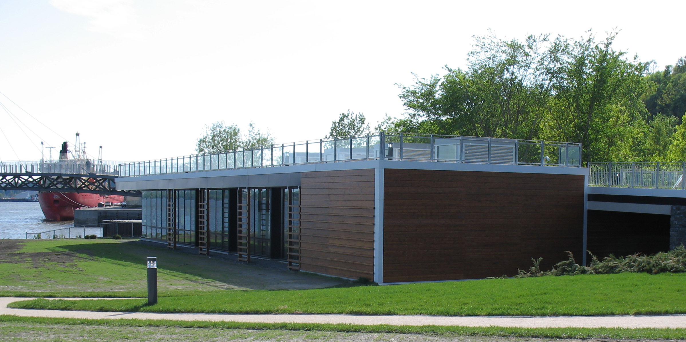 Information